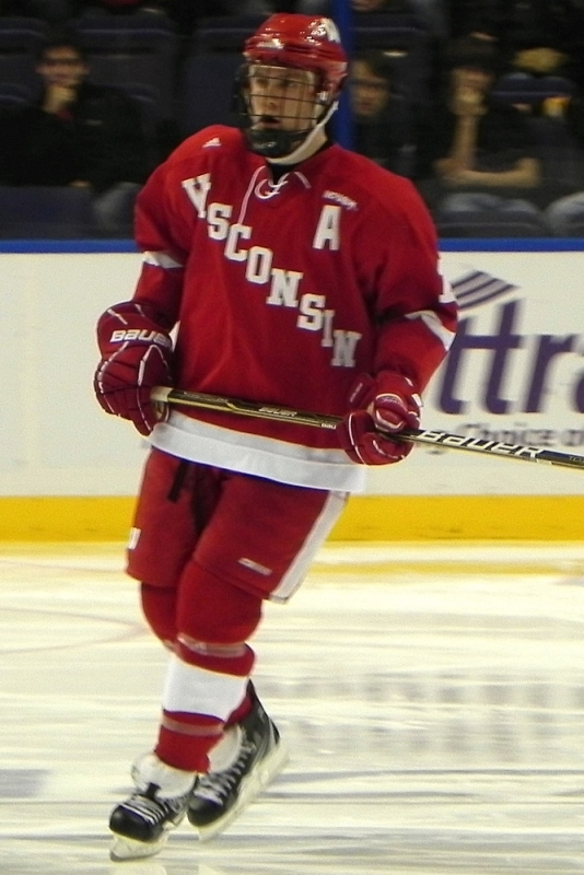 Jake Gardiner (1st round draft pick of Anaheim, 2008) playing for the Wisconsin Badgers men's ice hockey team in a game against Holy Cross on October 10, 2010 at the 2010 Warrior Ice Breaker Tournament.